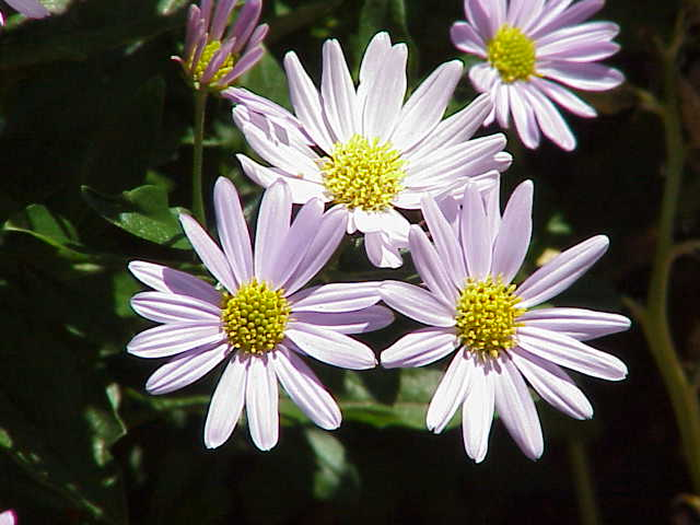 Species: Kalimeris incisa Family: Asteraceae Image No. 1